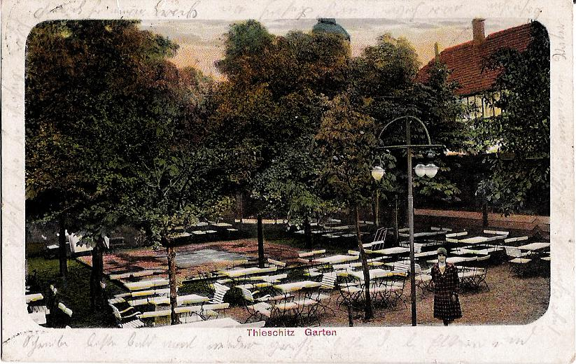 Gera Thieschitz, Scheffels restaurant.